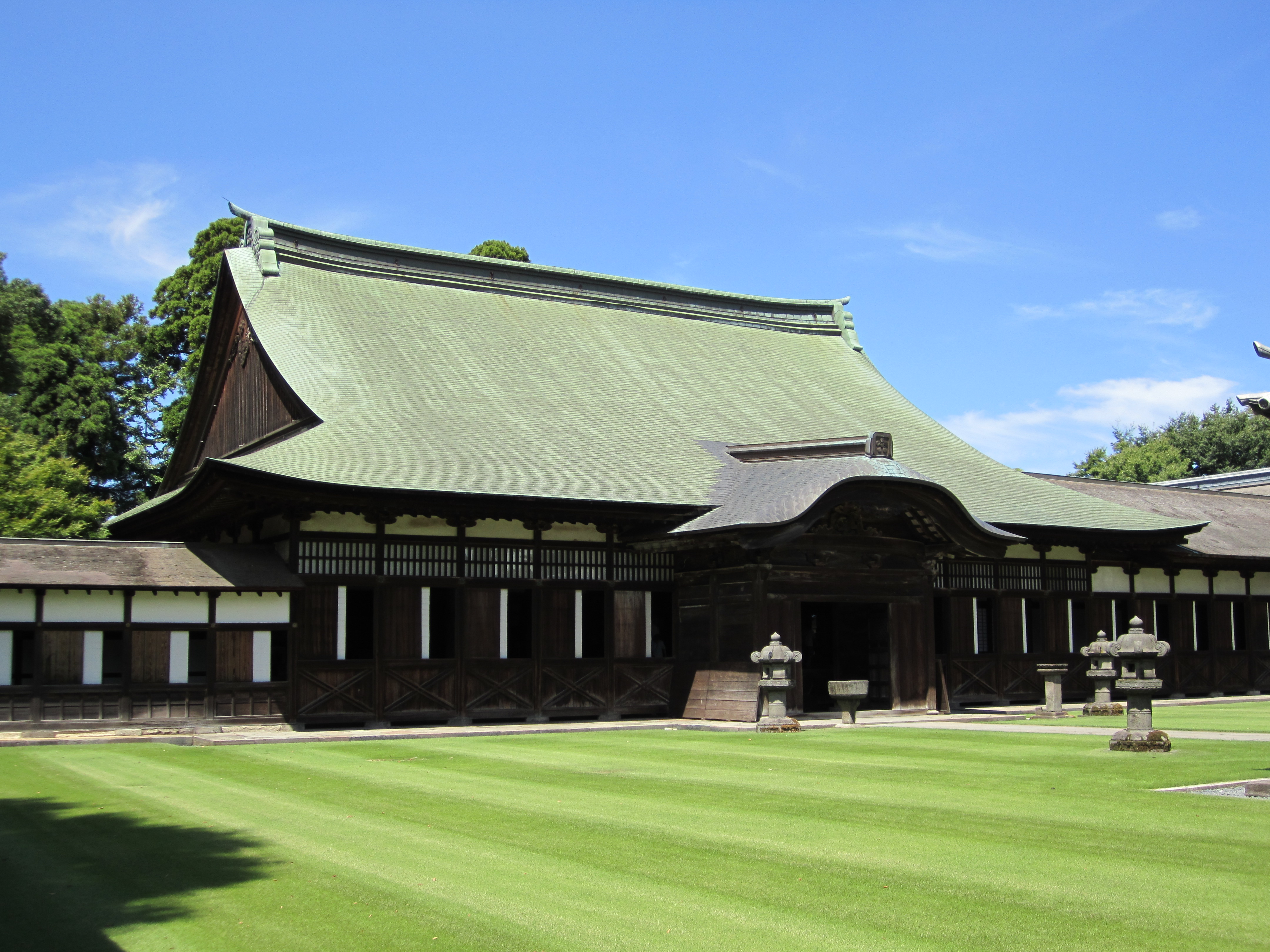 Hatto, Zuiryuji Temple